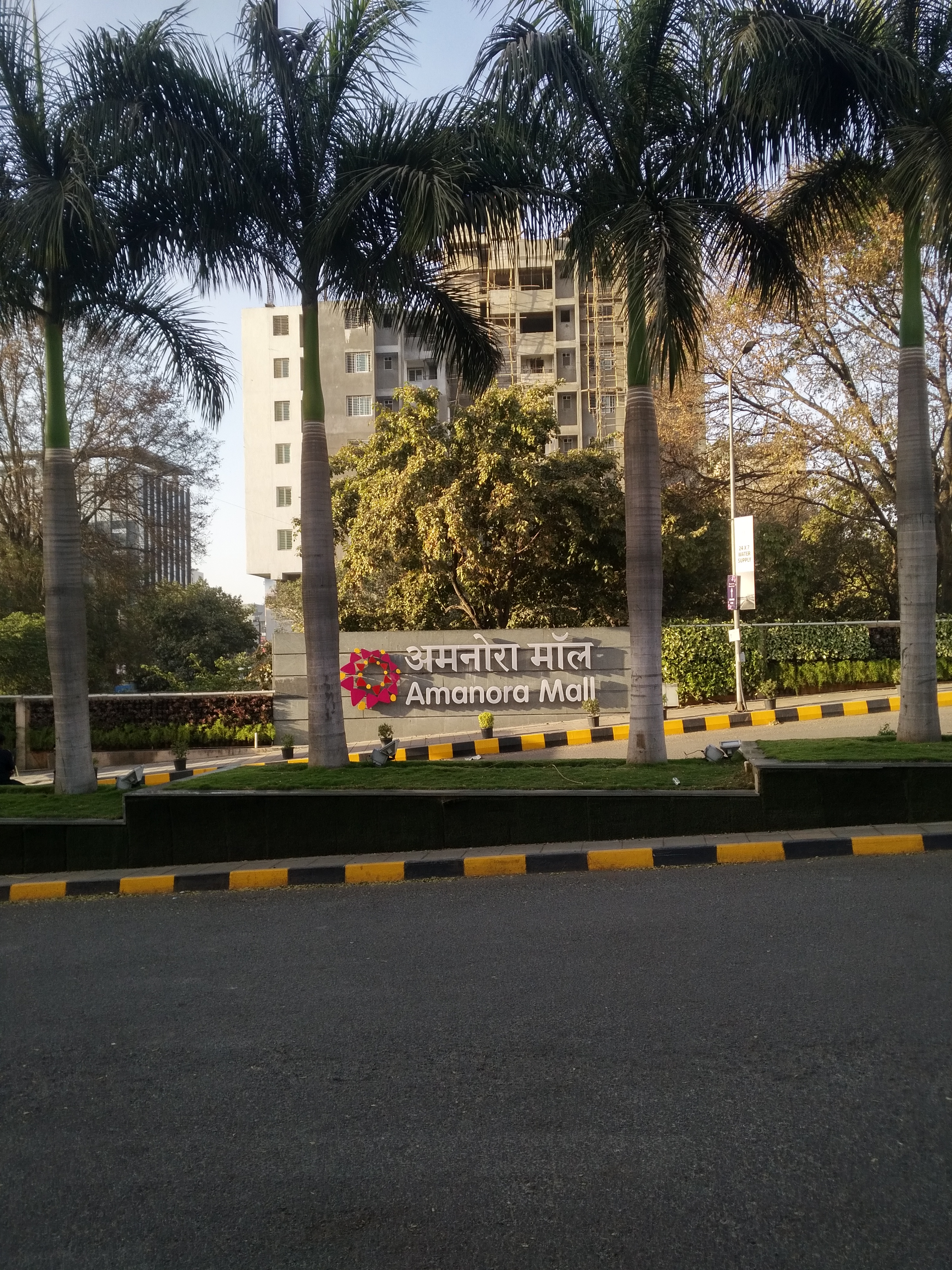 Plaque @ entrance of Amanora Mall